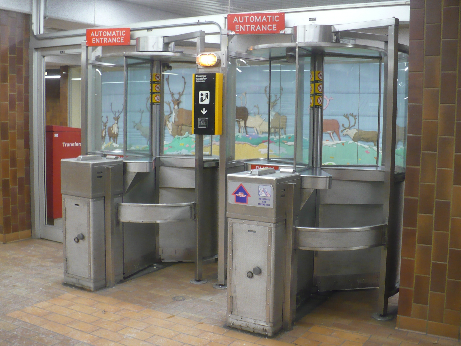 Spadina subway station in Toronto. "Barren Ground Caribou" by Joyce Wieland viewed through the automatic turnstiles